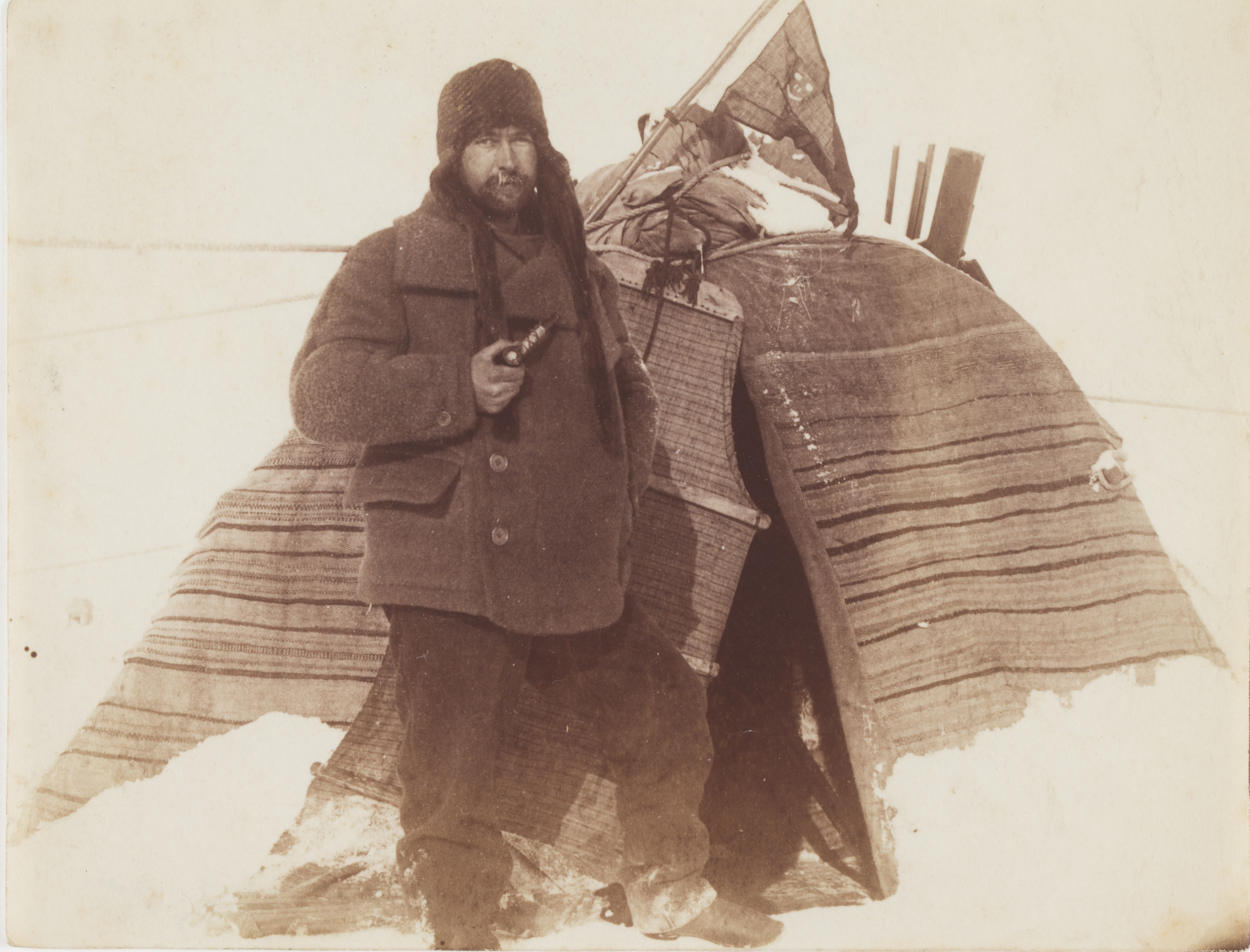 William Colbek with pipe, Antarctica, 1899, William Colbeck photographs and clippings relating to the British Antarctic (Southern Cross) Expedition, State Library of New South Wales, PXA 2123